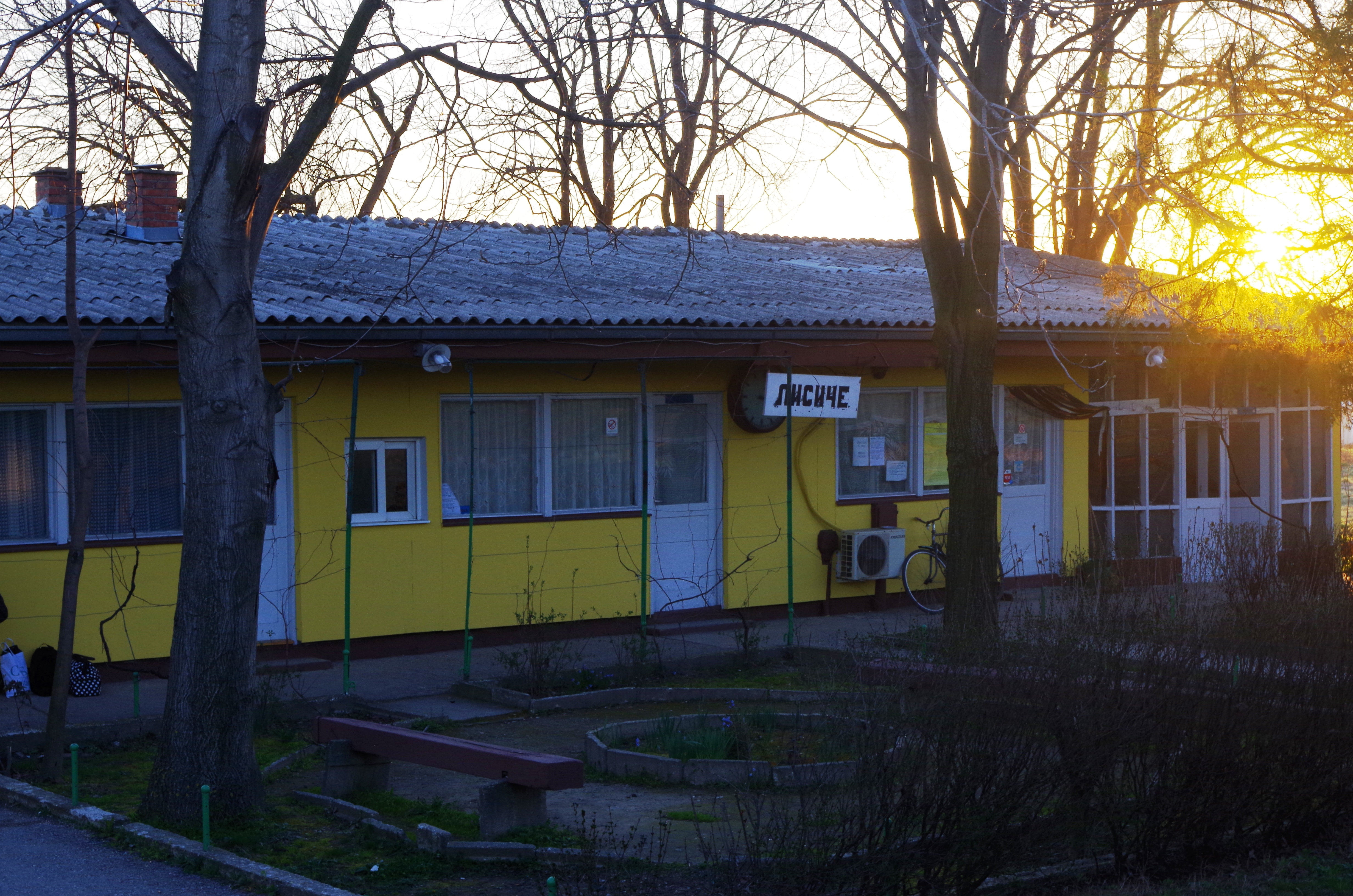 Train station Lisiče